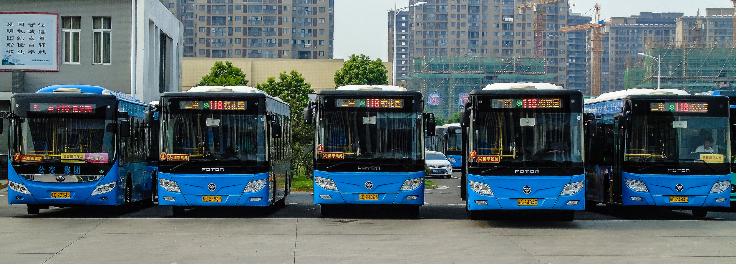 Bengbu Bus No.118 N